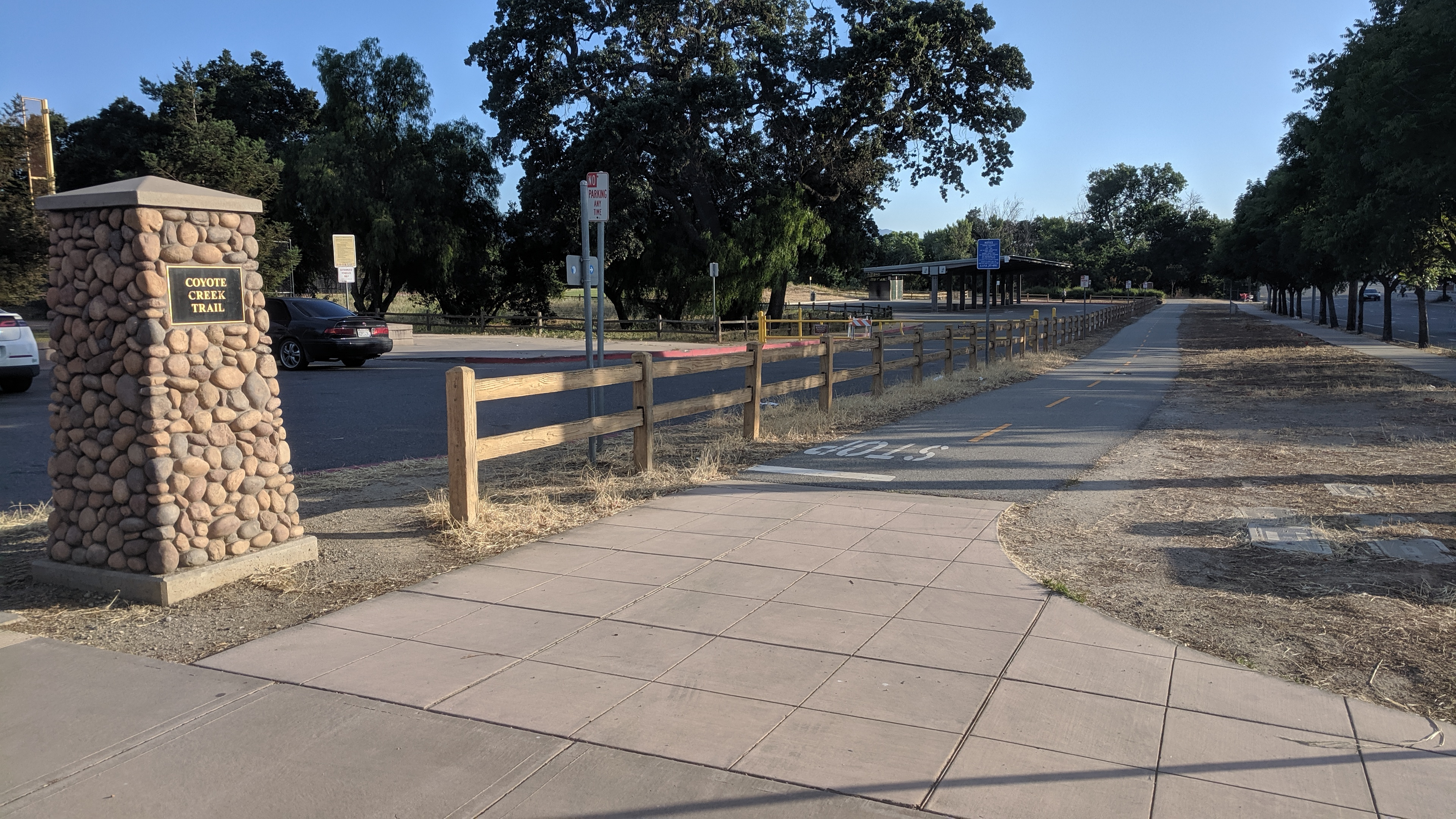 The northern terminus of the contiguous paved portion of the Coyote Creek Trail is on Tully Road in San Jose.